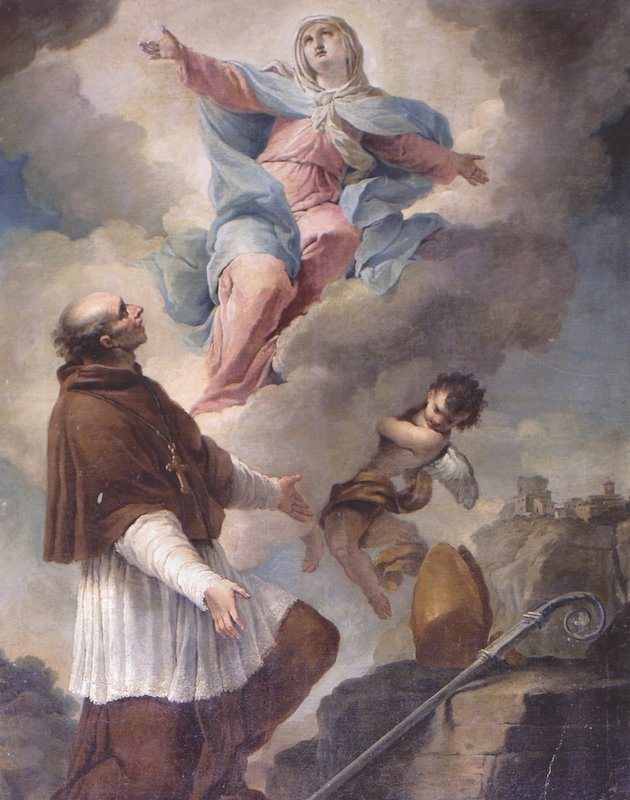 Il beato Giovanni Tavelli in preghiera davanti alla Vergine Assunta. 18th century painting by Giacomo Zampa in chiesa San Girolamo (Ferrara), Italy